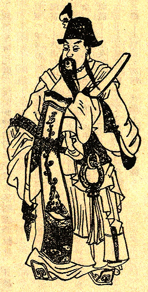 Portrait of Yuan Shao in a Qing Dynasty edition of the Romance of the Three Kingdoms